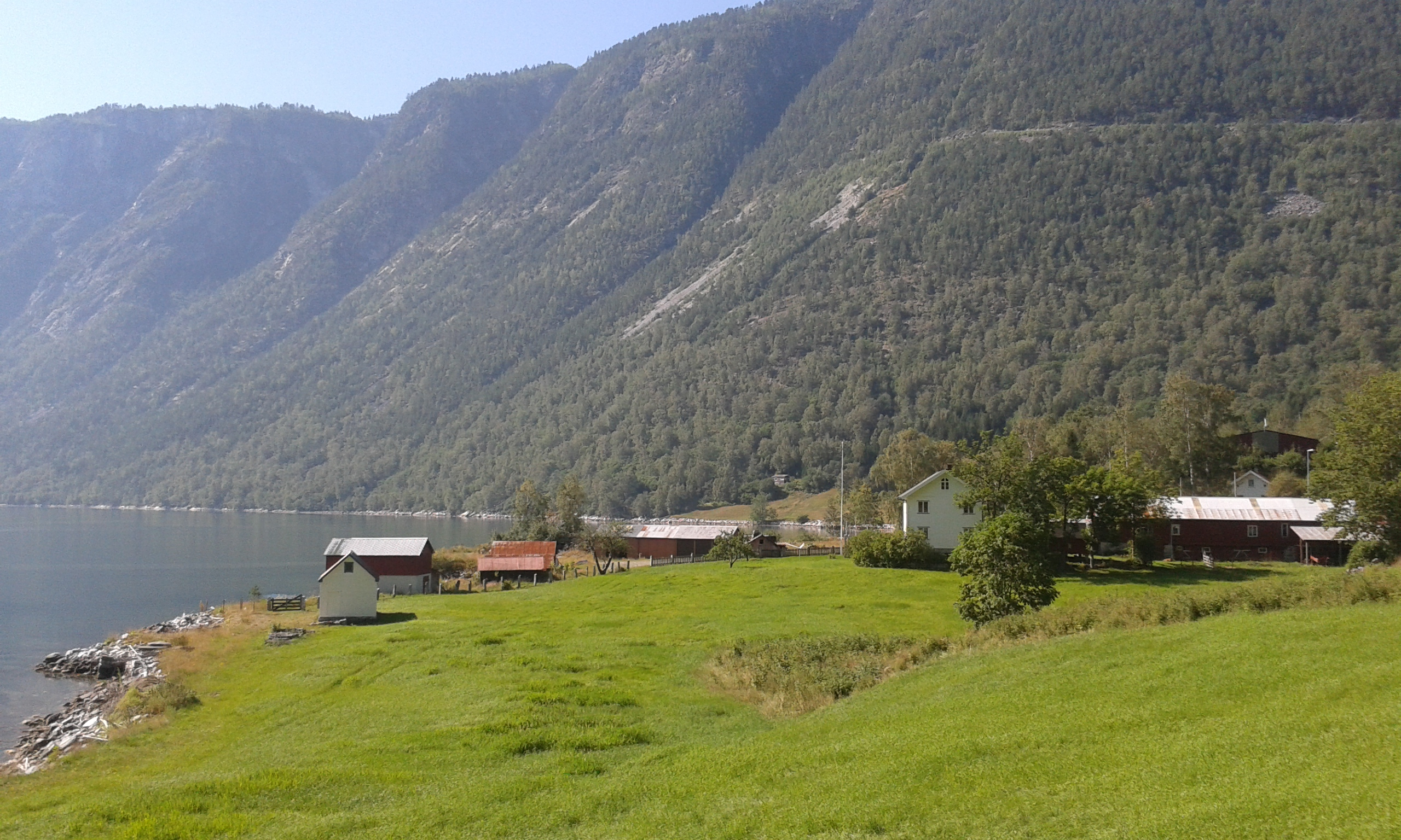 Houses of Seim on the shore of Årdalsfjord in the southern end of Seimsdalen, Årdal municipality, Sogn og Fjordane county, Norway